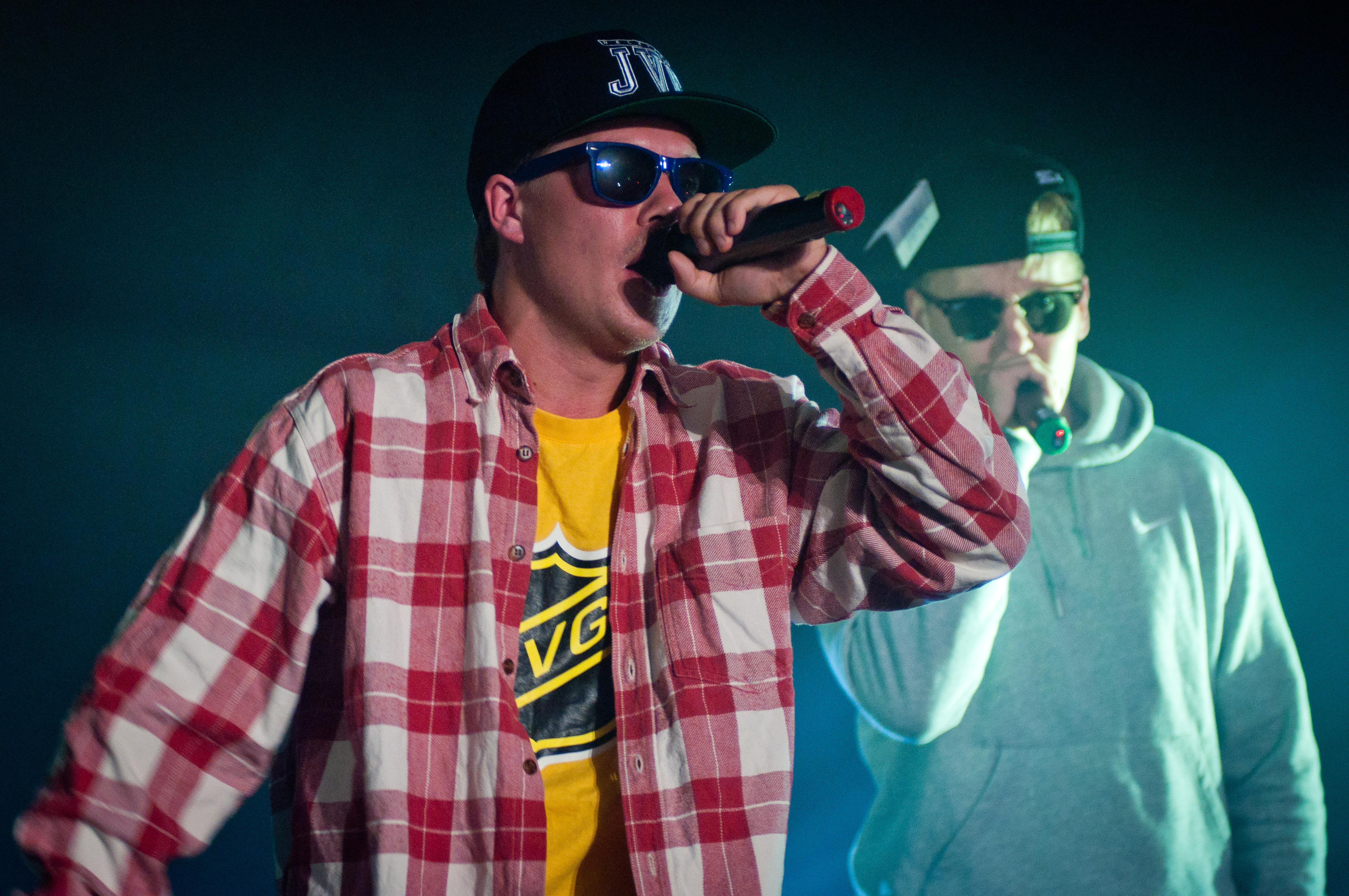 Finnish rap duo Jare & VilleGalle performing in Lappeenranta, Finland.